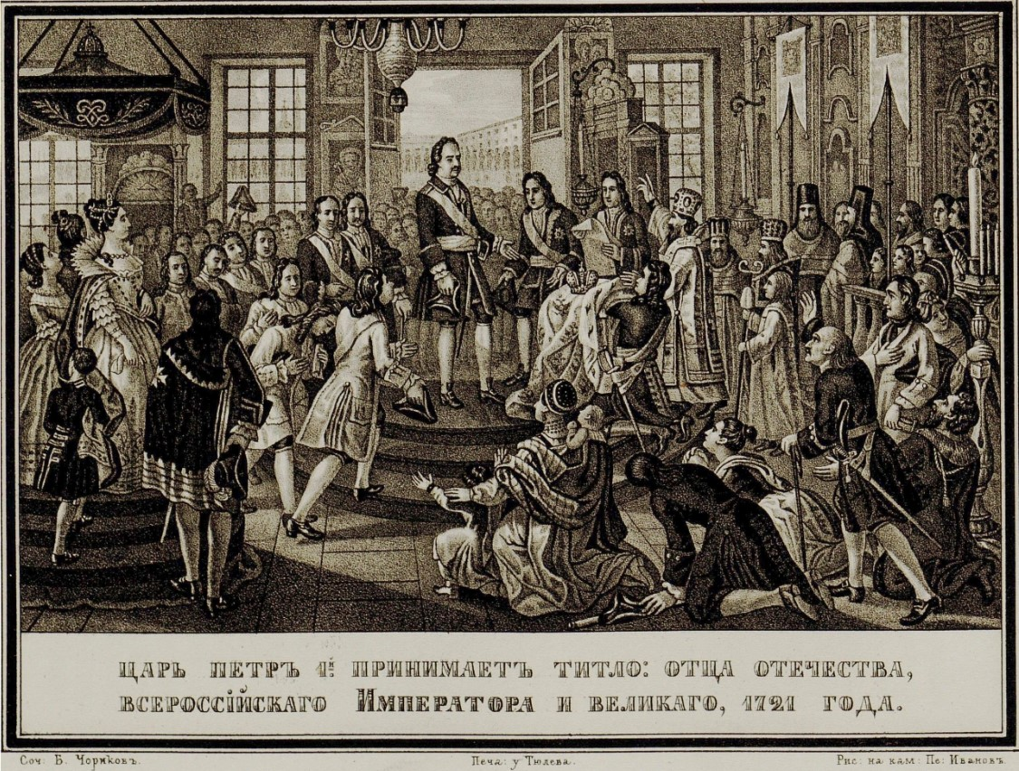 Peter I Being Titulated as the Emperor of the Whole Russia